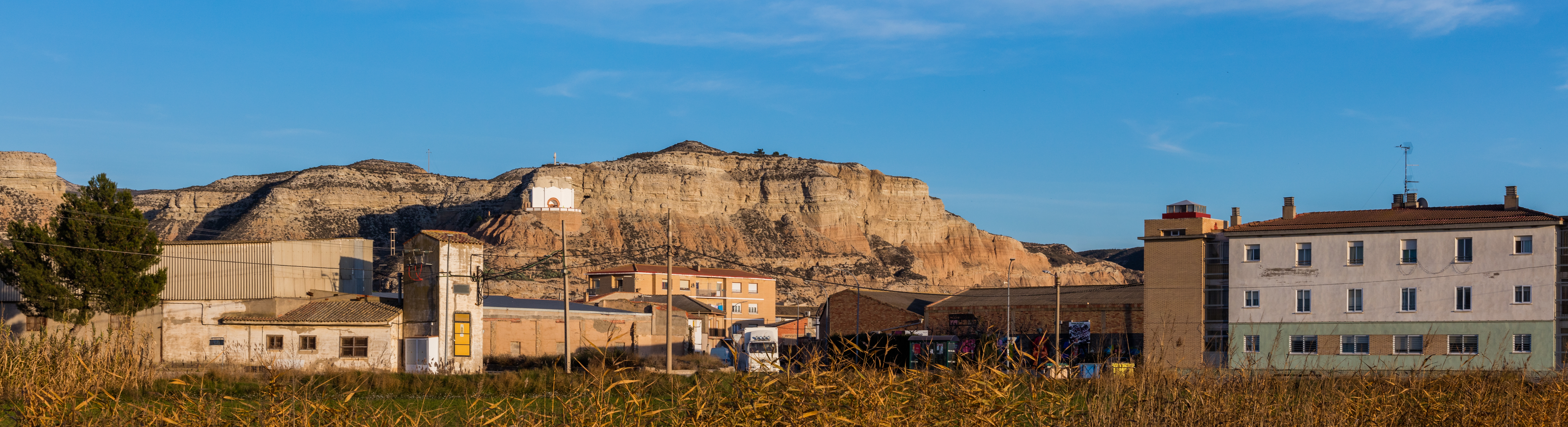 Remolinos, Zaragoza, Spain